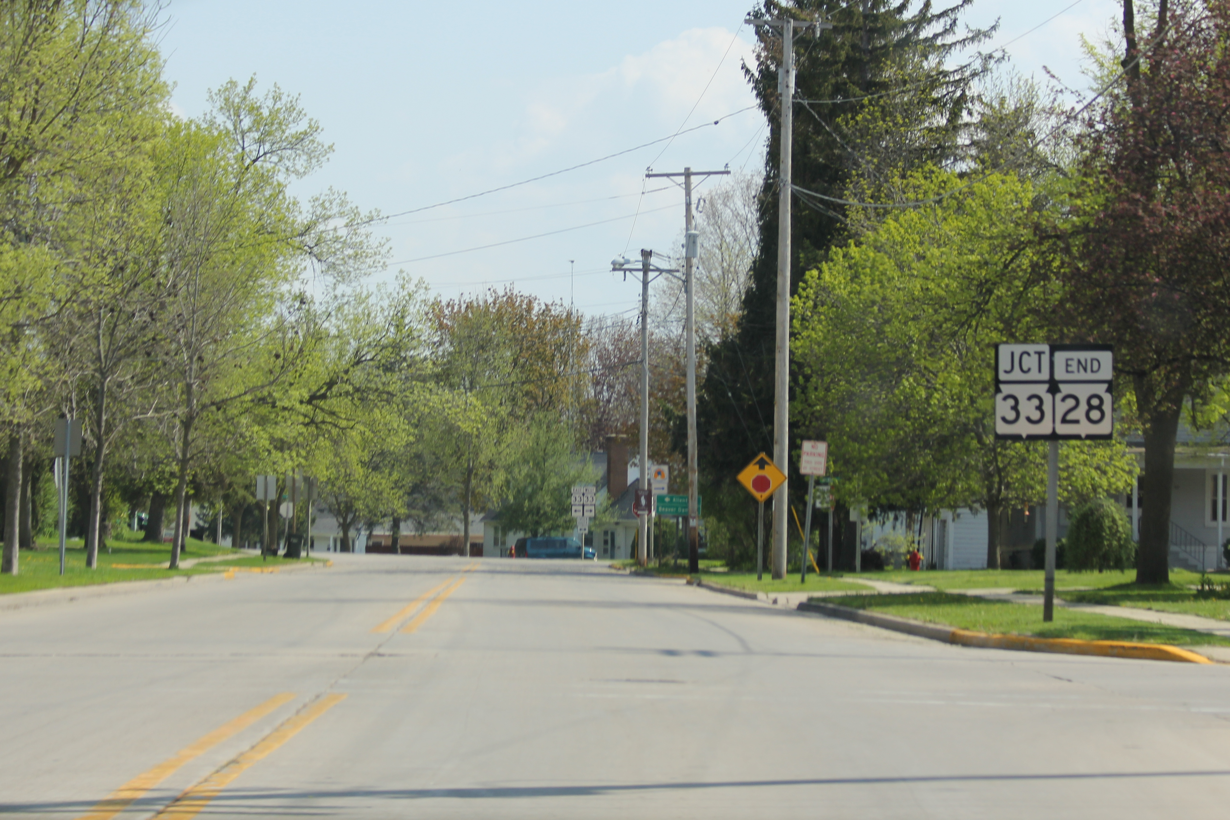 Looking south at the southwestern terminus of Wisconsin Highway 28.